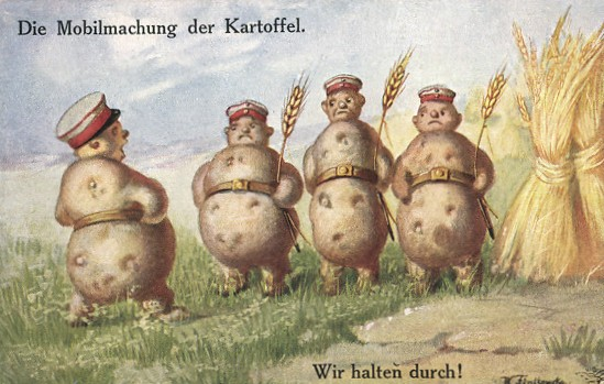 We stop!